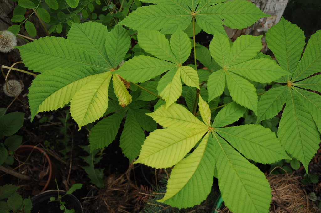 Aesculus hippocastanum sectorial chimera